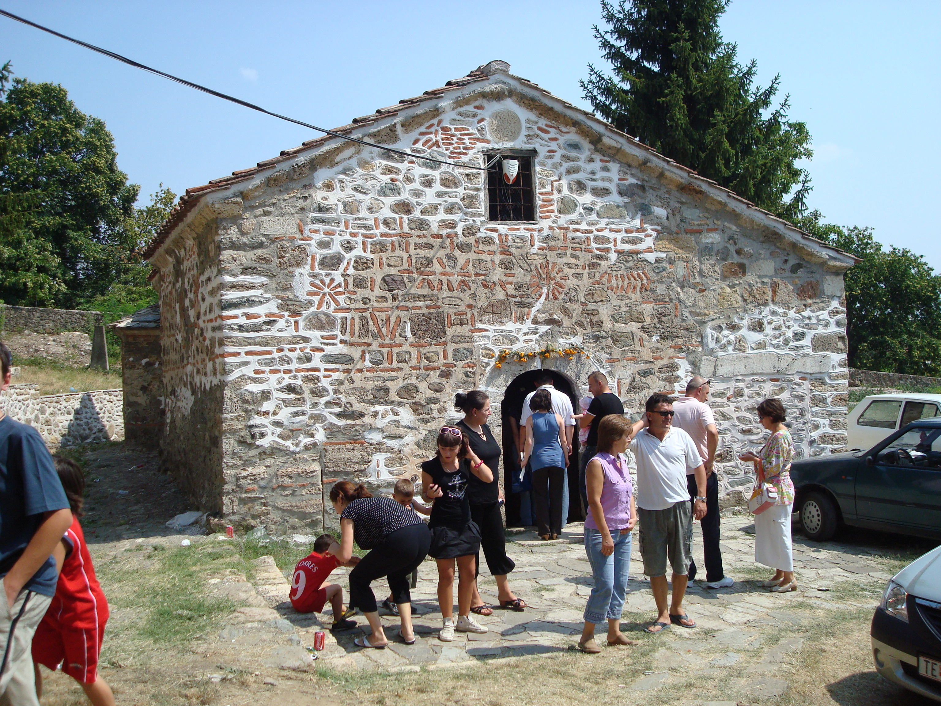 St. Mother of Got church, Lešok Monastery, Macedonia